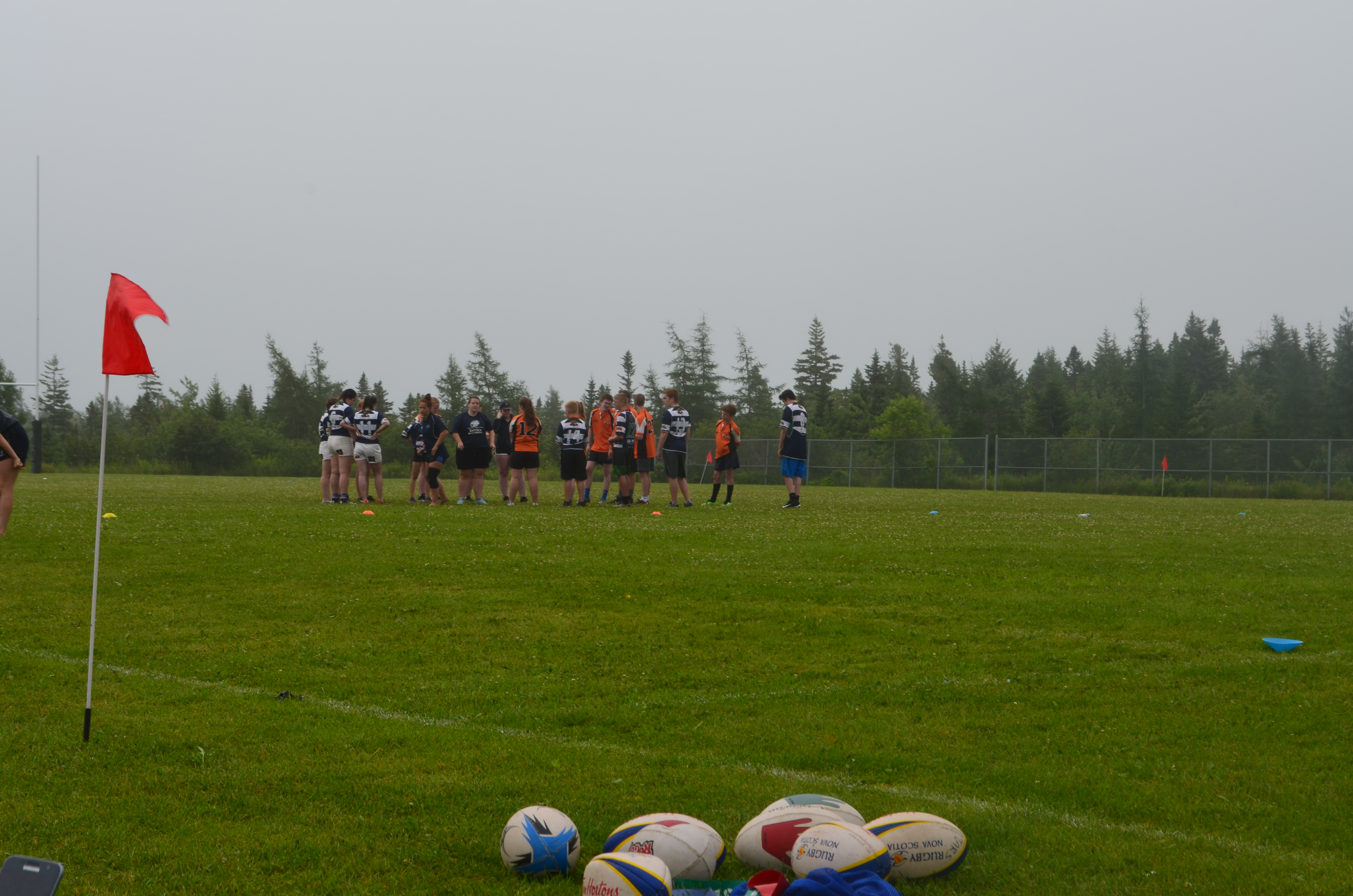 Graves-Oakley Park Rugby game